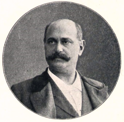 German theatre director José Ferenczy (1852–1908)